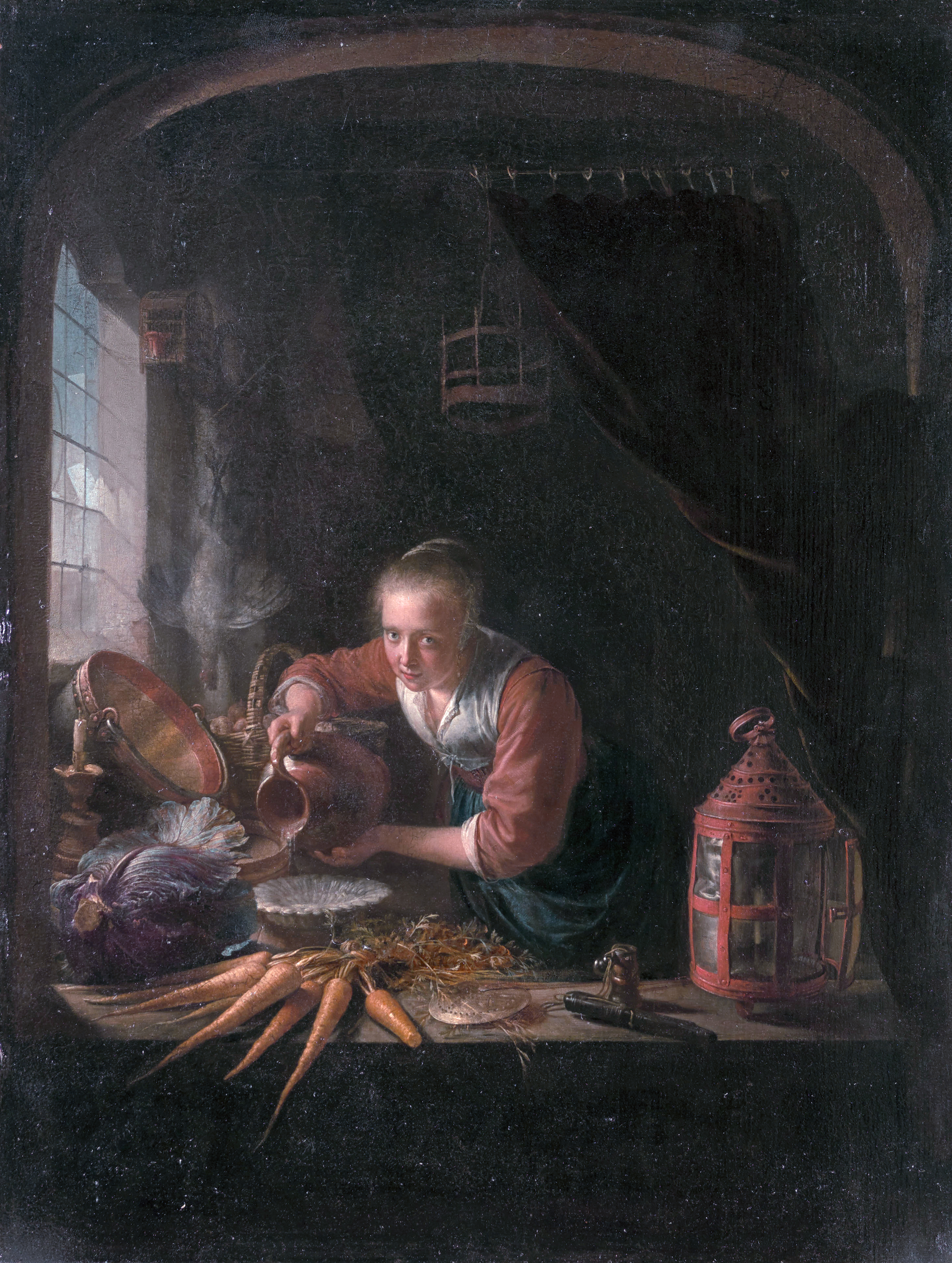 Young woman pouring water out of a jug oil on panel 36 x 27,3 cm 1655 - 1665